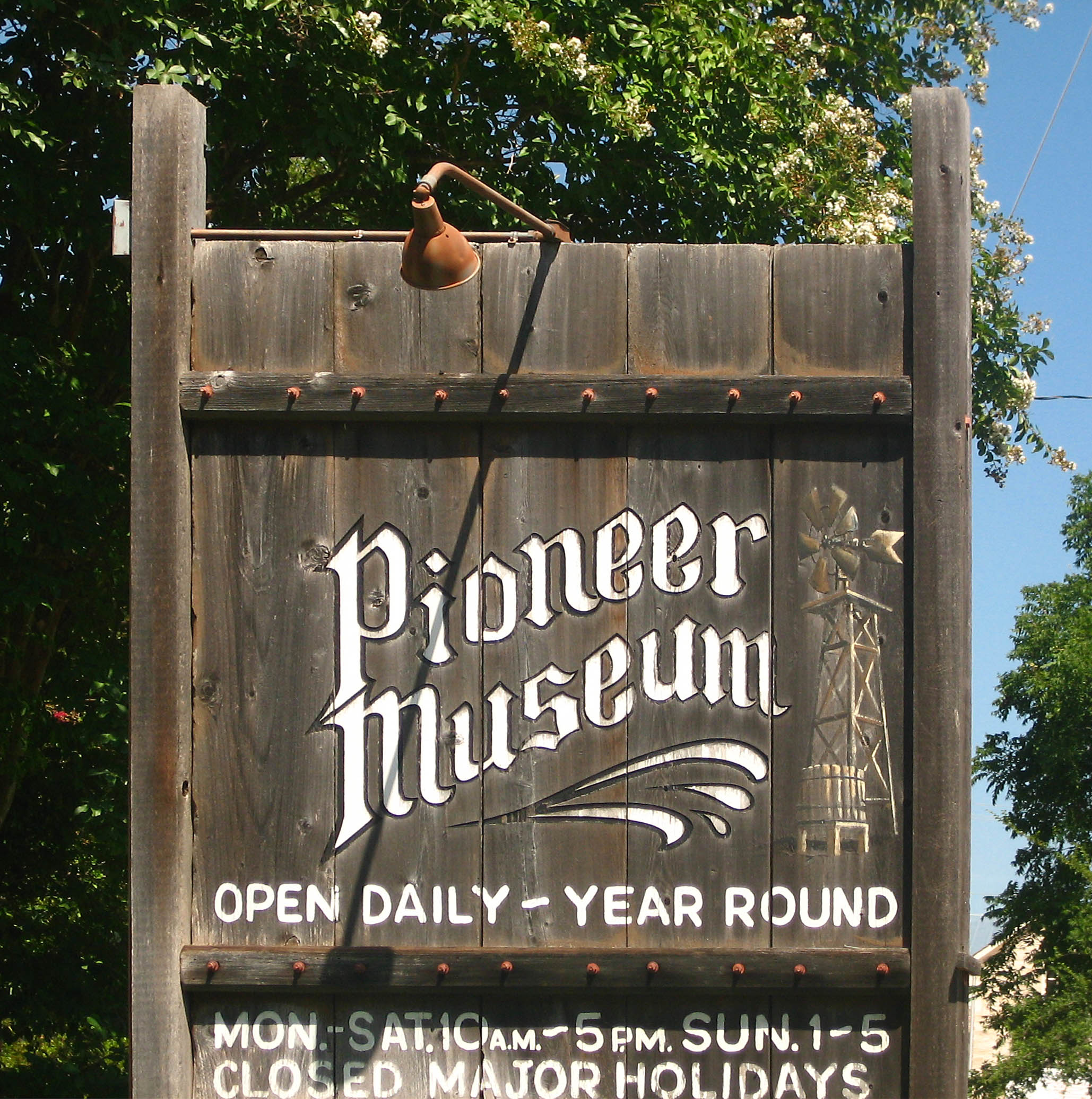 I took photo on July 18, 2008.Billy Hathorn (talk) 18:56, 20 July 2008 (UTC)